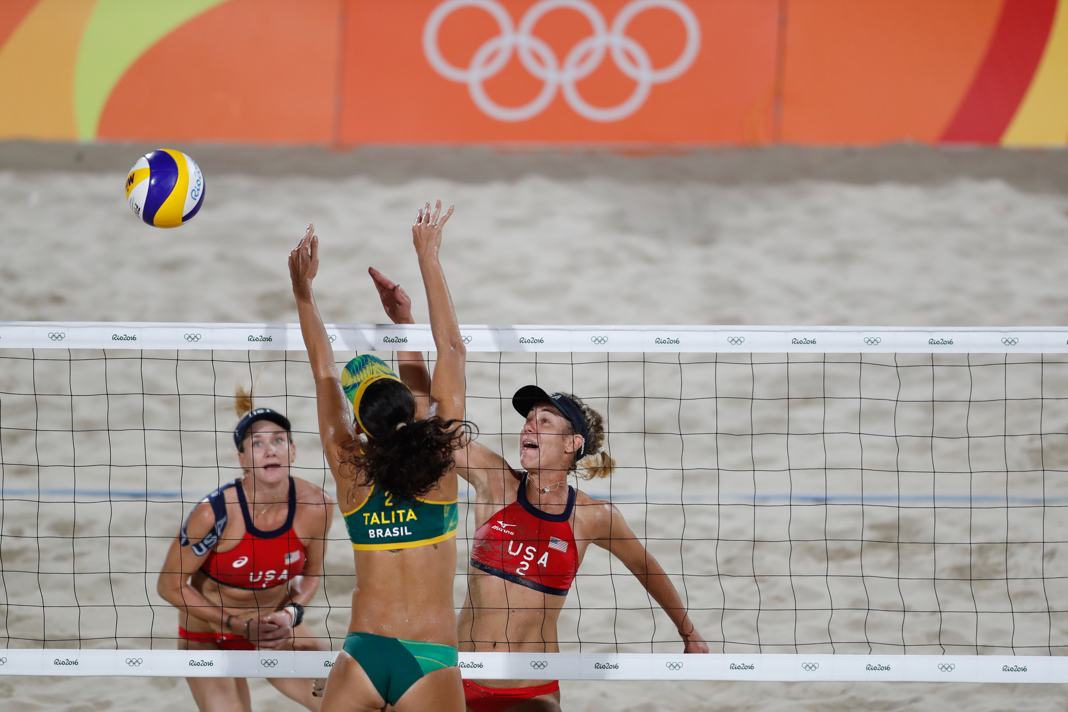 Rio de Janeiro - Dupla de vôlei de praia do Brasil Larissa e Talita perdem a disputa de bronze para norte-americanas Walsh e Ross nos Jogos Olímpicos Rio 2016, em Copacabana ( Fernando Frazão/Agência Brasil)